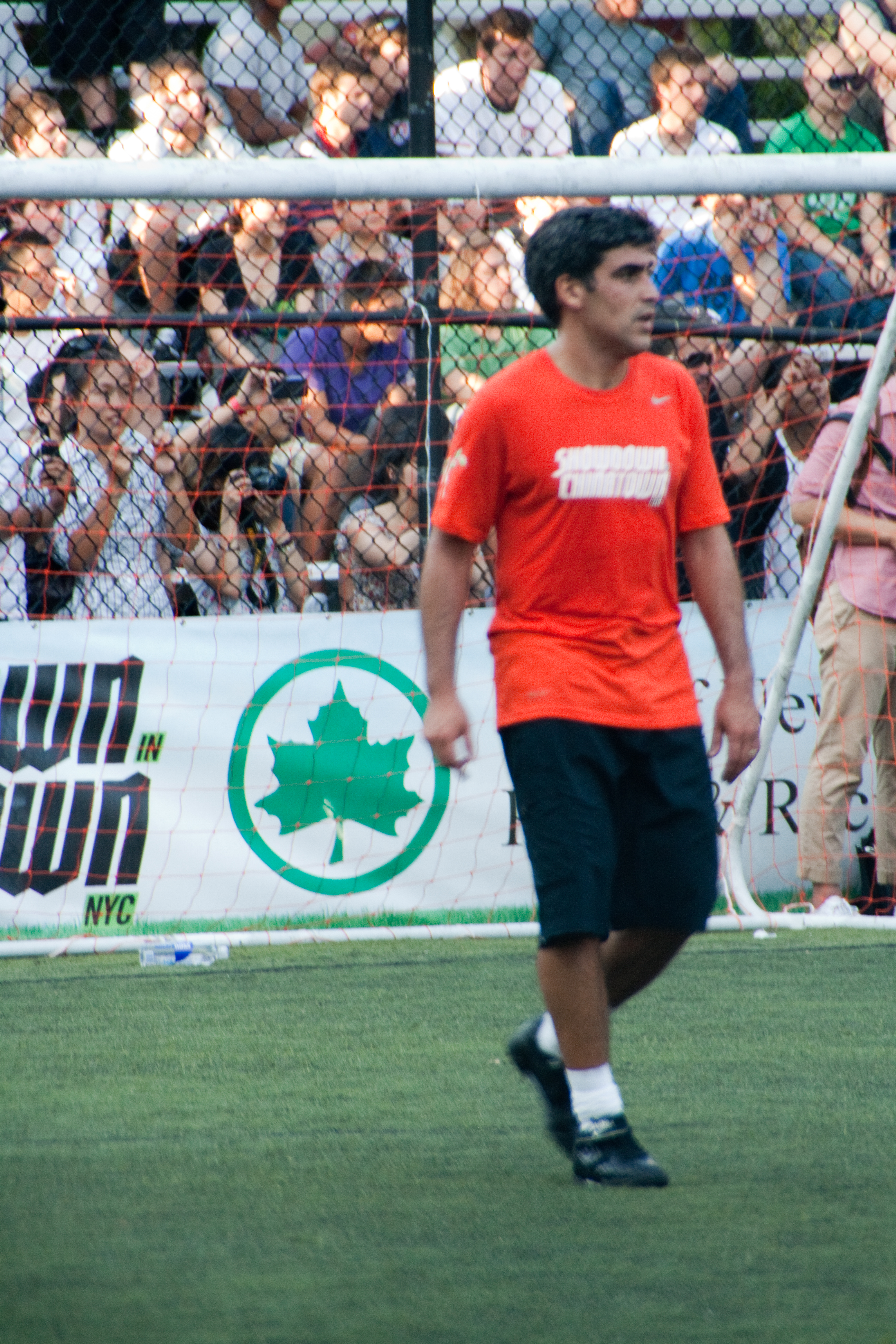 Claudio Reyna playing in Showdown in Chinatown 2010